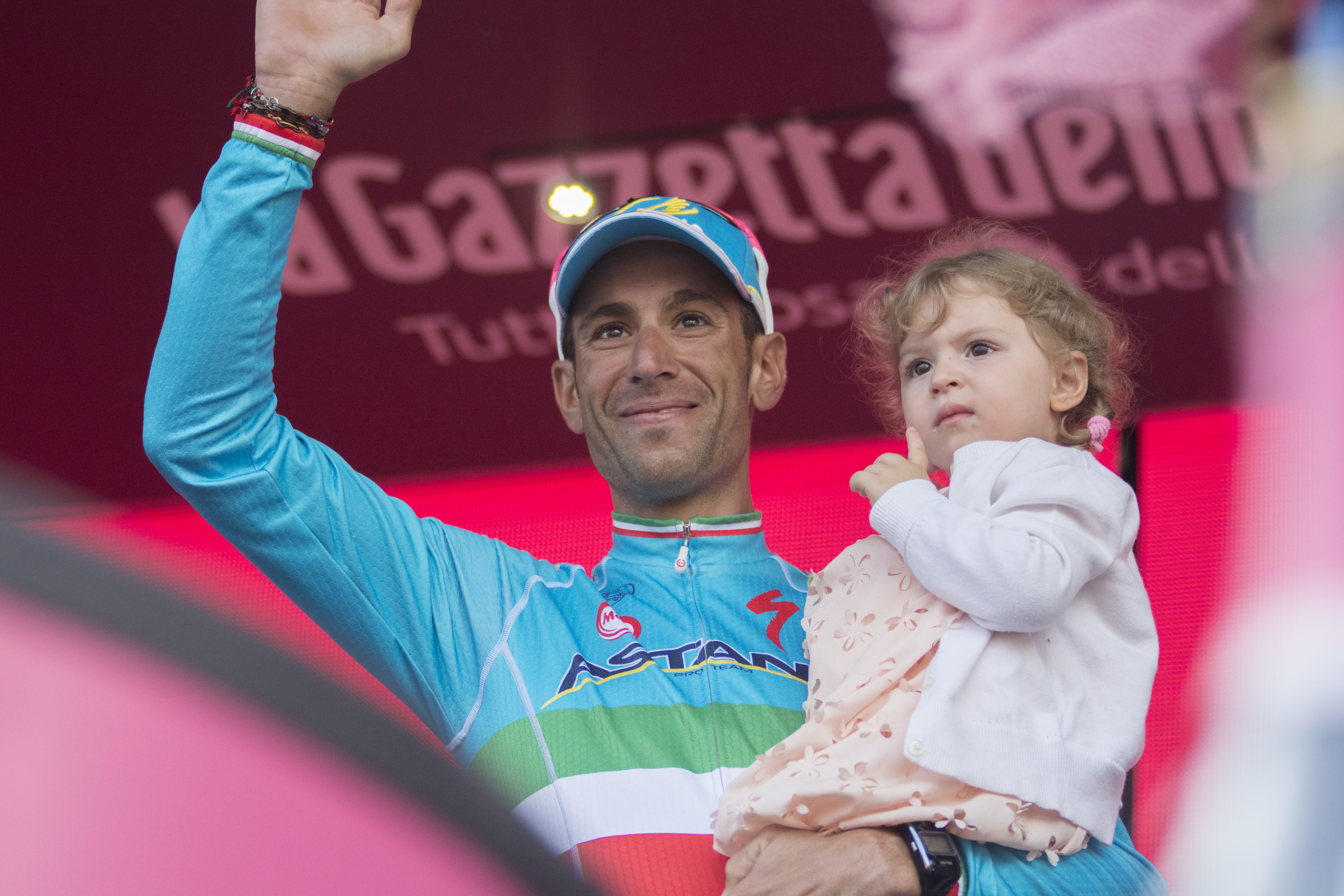 Vincenzo Nibali, on the 99th Giro d'Italia podium, holding his daughter Emma Vittoria.